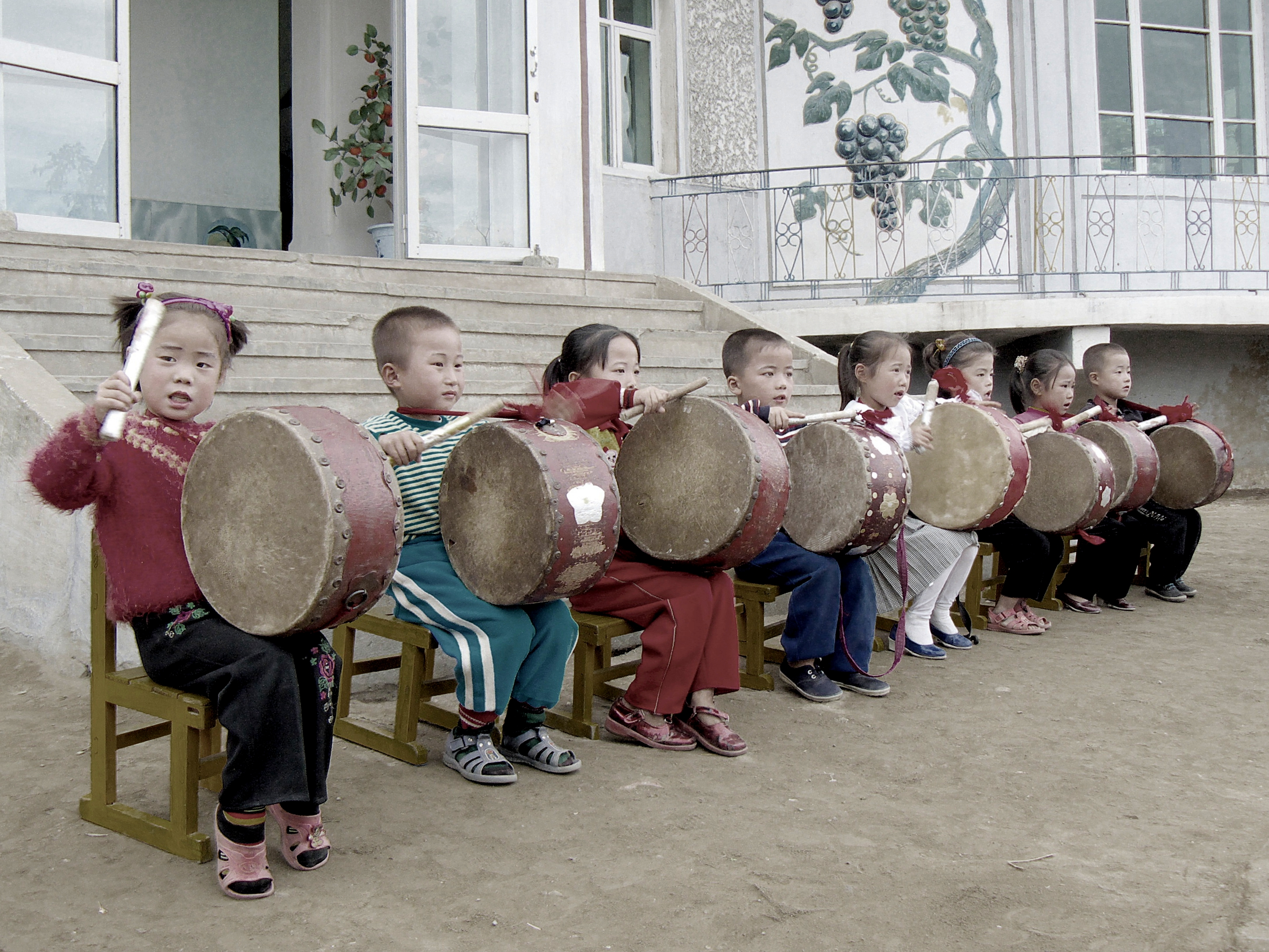 Situated on the outskirts of Wonsan, North Korea, the Chonsam Cooperative Farm is possibly the only place in the country where foreign visitors are allowed into a working farm. While it is indeed a working farm, it does feel a little bit contrived. Throughout the duration of our visit, which lasted well over an hour, these children were singing, dancing and playing drums endlessly. Was it staged? The drums routine in particular, seemed more like a well-rehearsed performance.